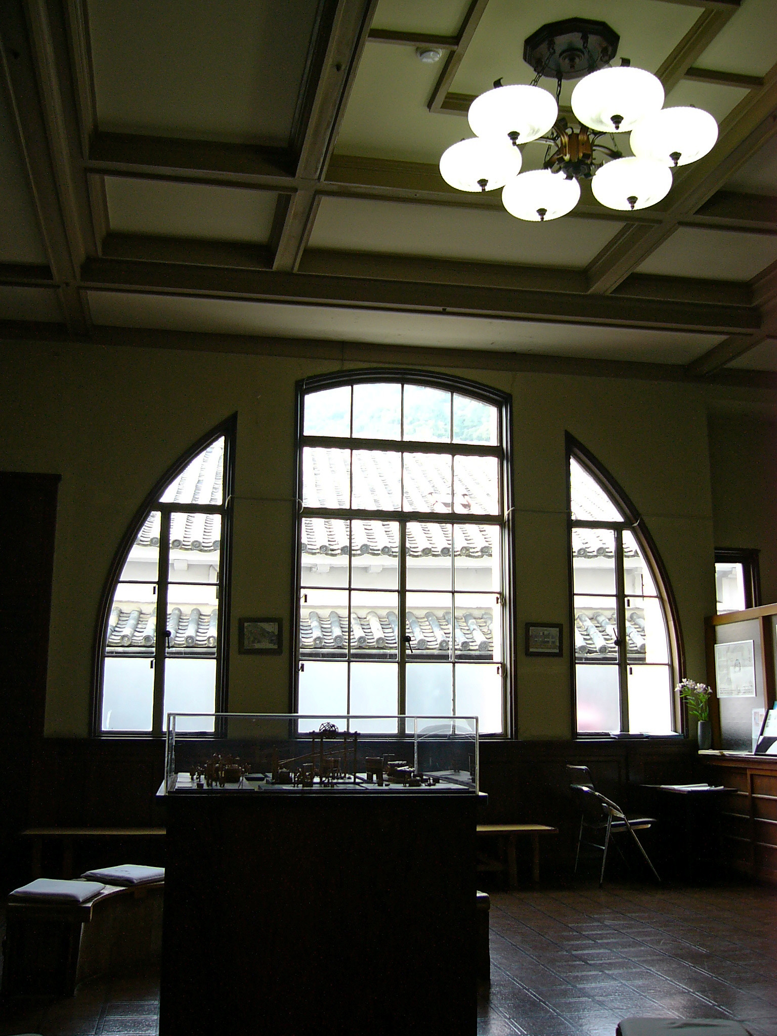 Usukuchi-Tatsuno-Shoyu Museum in Tatsuno, Hyogo prefecture, Japan